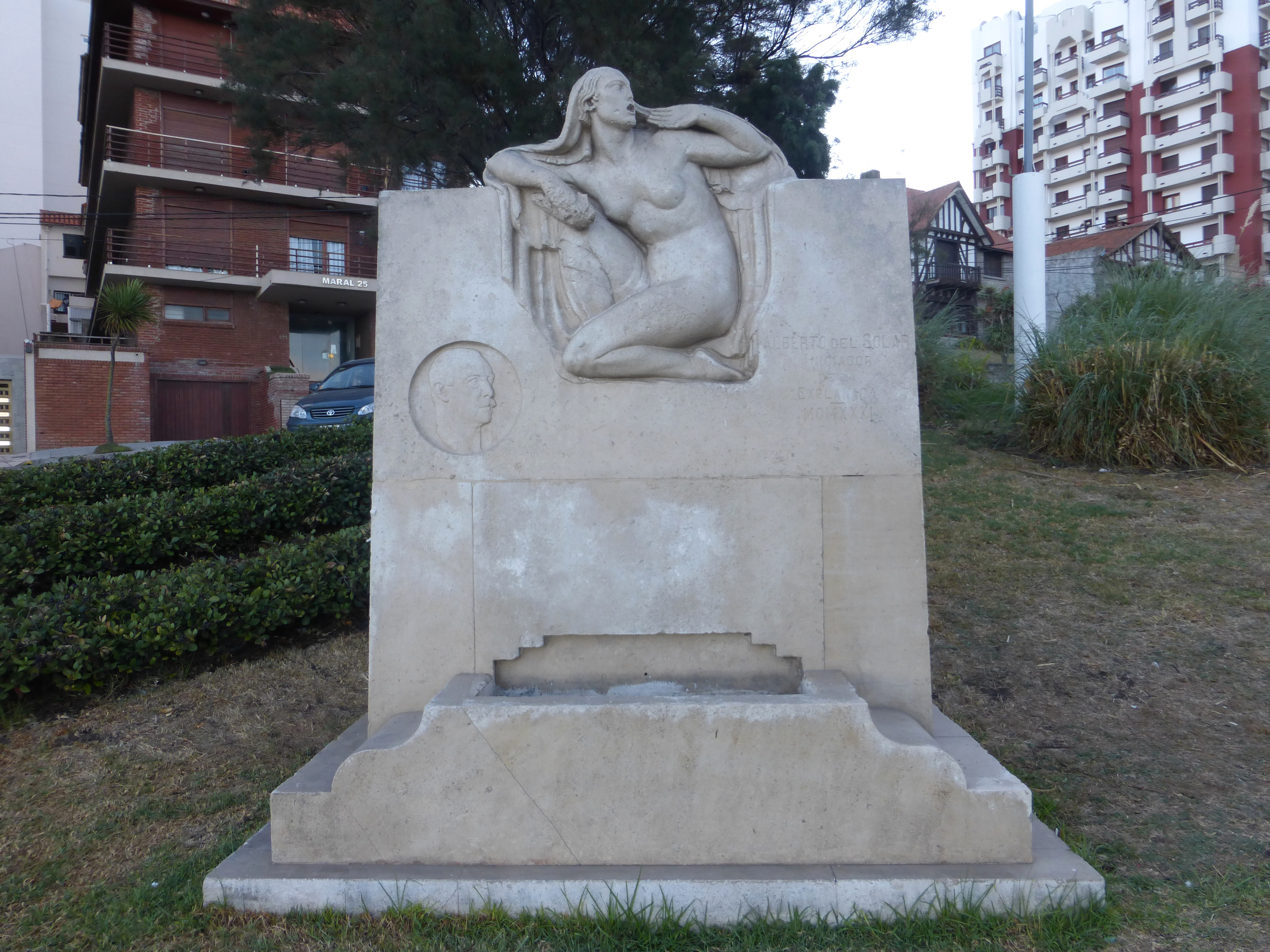 Allegory of the Molisan Community in Mar del Plata.